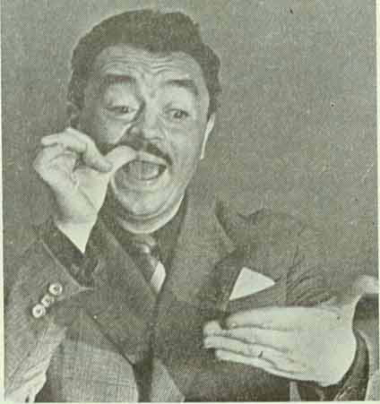 Romanian actor Ion Lucian